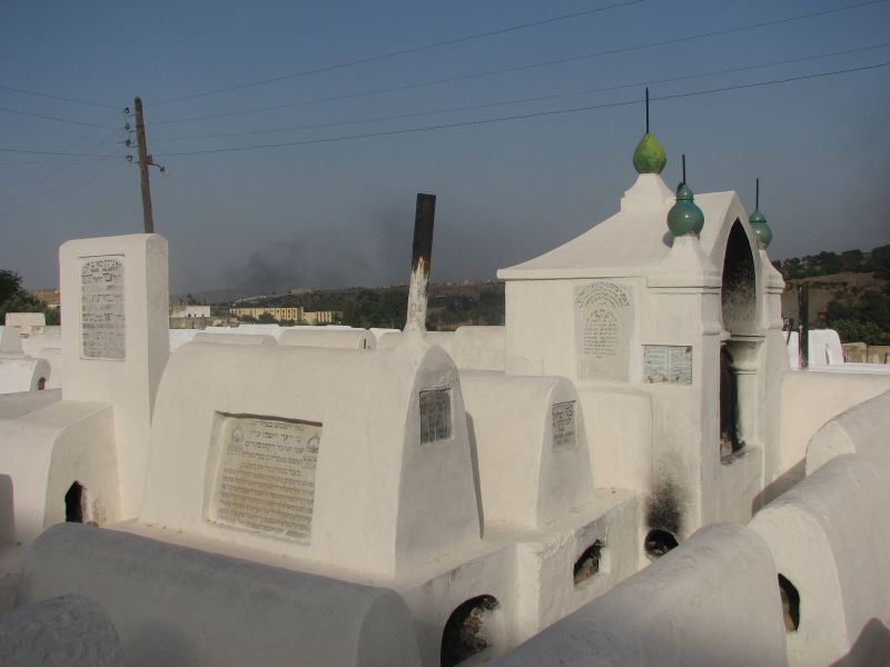 Jewish graveyard in Fés, mellah